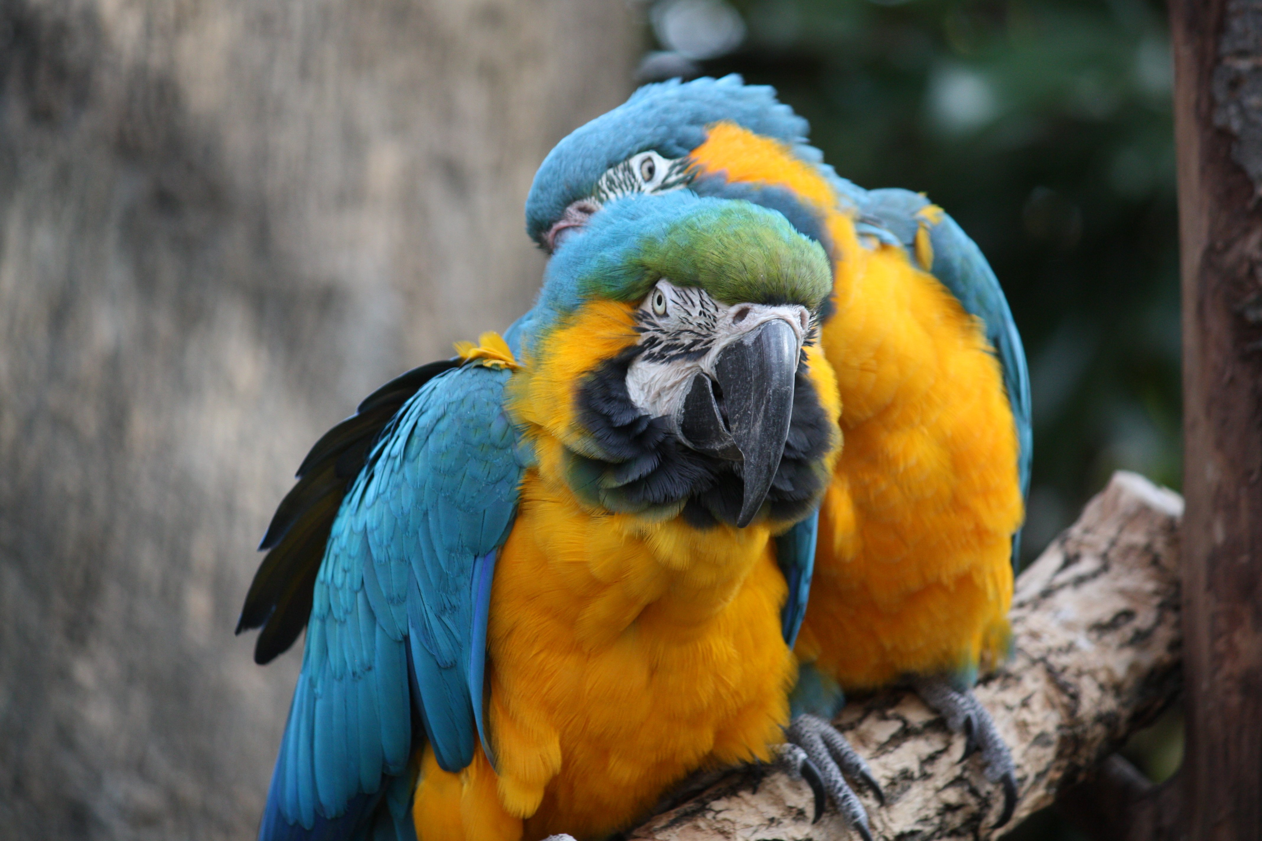 Blue and Yellow Macaw Ara ararauna at Cincinnati Zoo